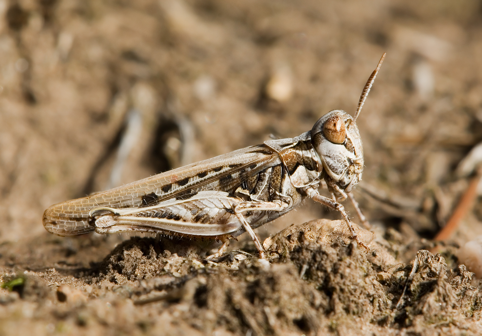 Southern Austroicetes (Austroicetes frater), Risdon Brook Dam, Tasmania, Australia. Approximate length 25mm. Camera data Camera Canon EOS 400D Lens Tamron EF 180mm f3.5 1:1 Macro Flash Softbox Focal length 180 mm Aperture f/11 Exposure time 1/200 s Sensivity ISO 200